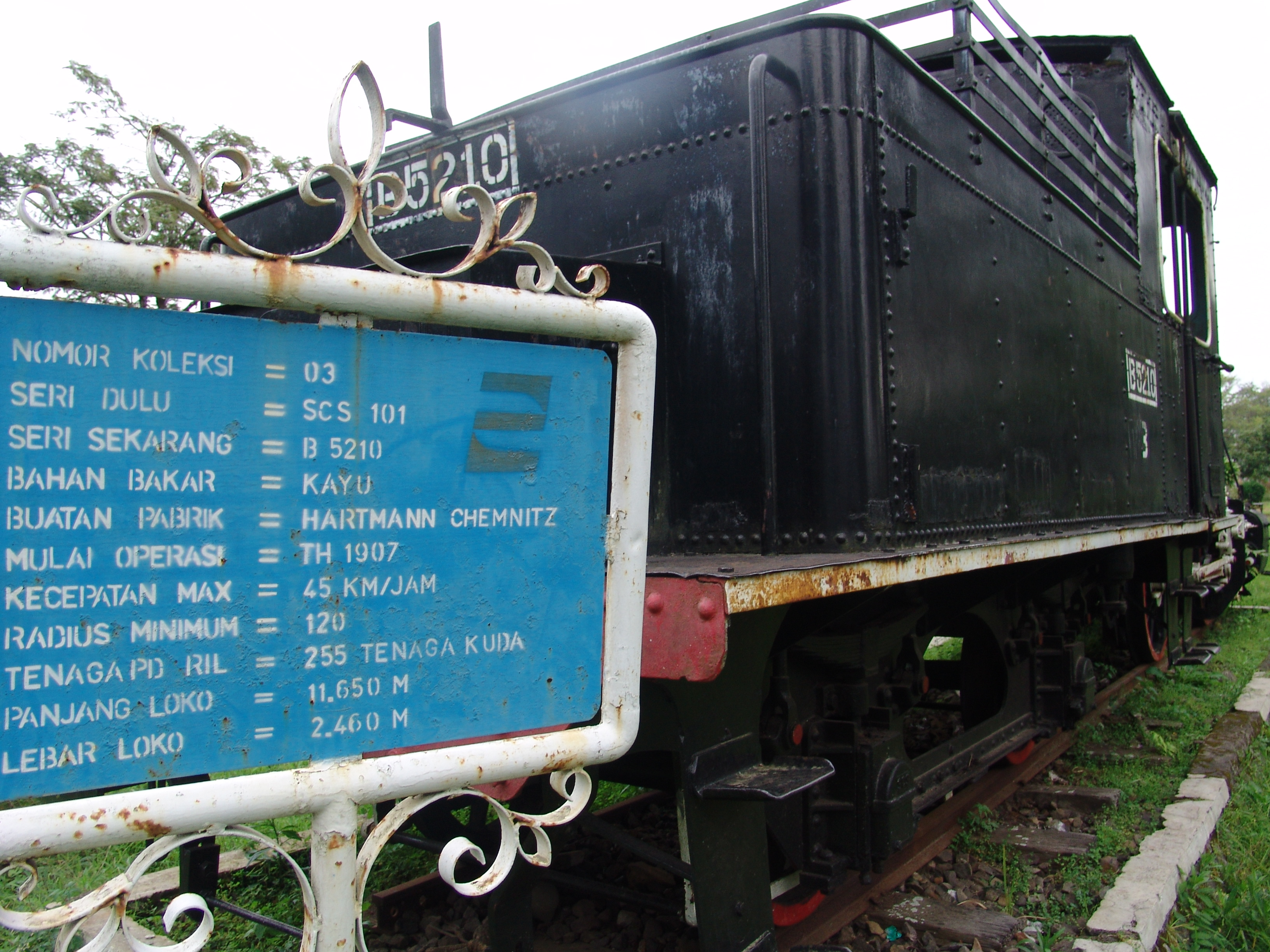 steam locomotive of German Background